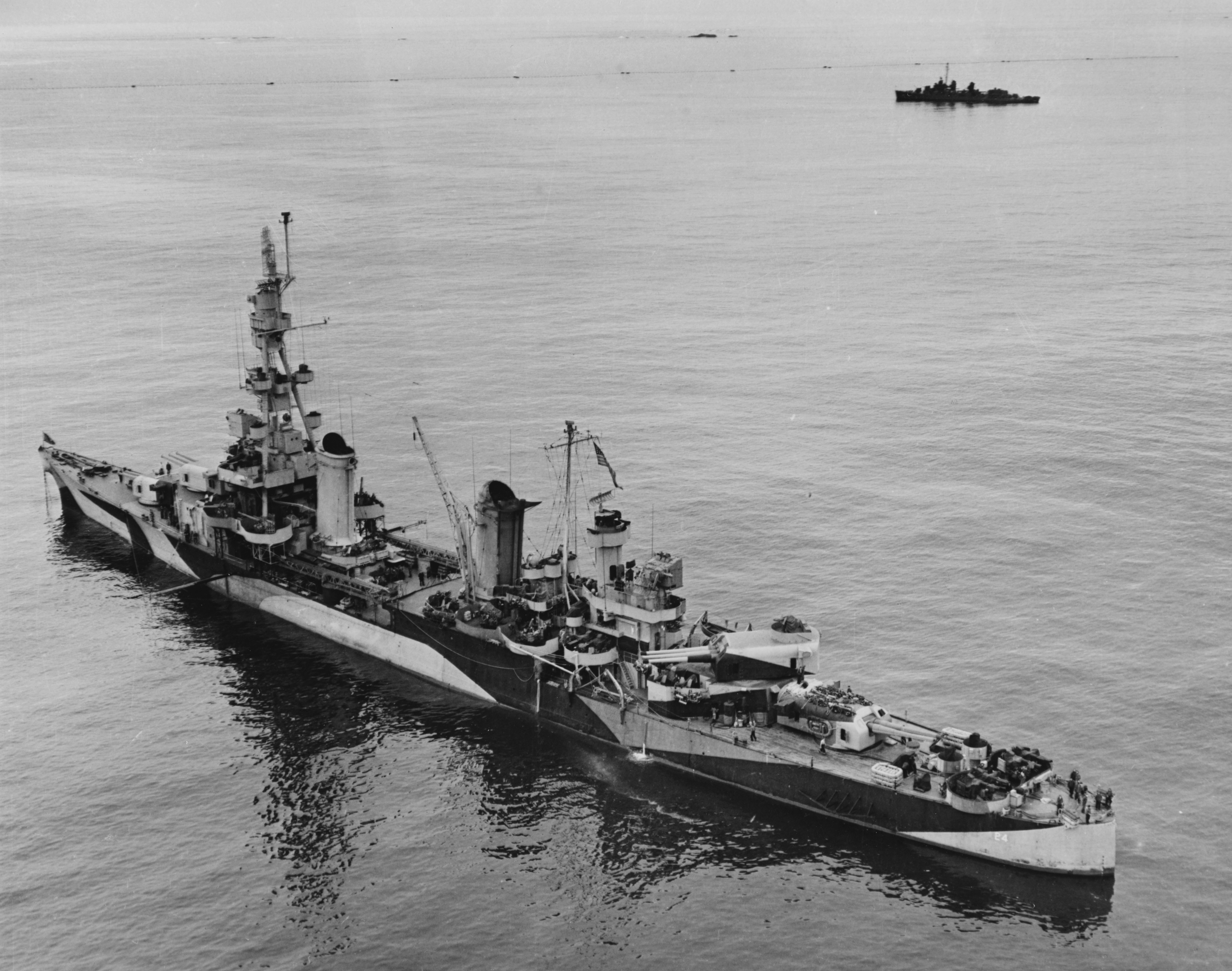 The U.S. Navy heavy cruiser USS Pensacola (CA-24) in Massacre Bay, Attu Island, Alaska, on 9 June 1944. She is painted in Camouflage Measure 32, Design 14d.